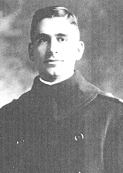 Edouard Izac, Medal of Honor recipient, U.S. Congressman from California.